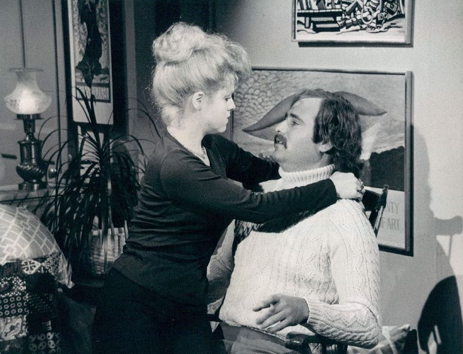 Bernadette Peters on All in The Family (1976)